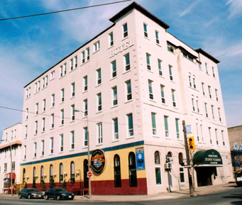 Taken by User:Trappy, 2005. This is a recent picture of the Welland House Hotel in downtown St.Catharines, a former health spa. I personally took this photograph with my Canon EOS 3000 analog SLR camera, therefore I release it to the public.